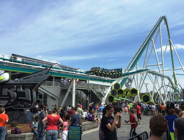 Entry area for Fury 325 Giga-coaster at Carowinds